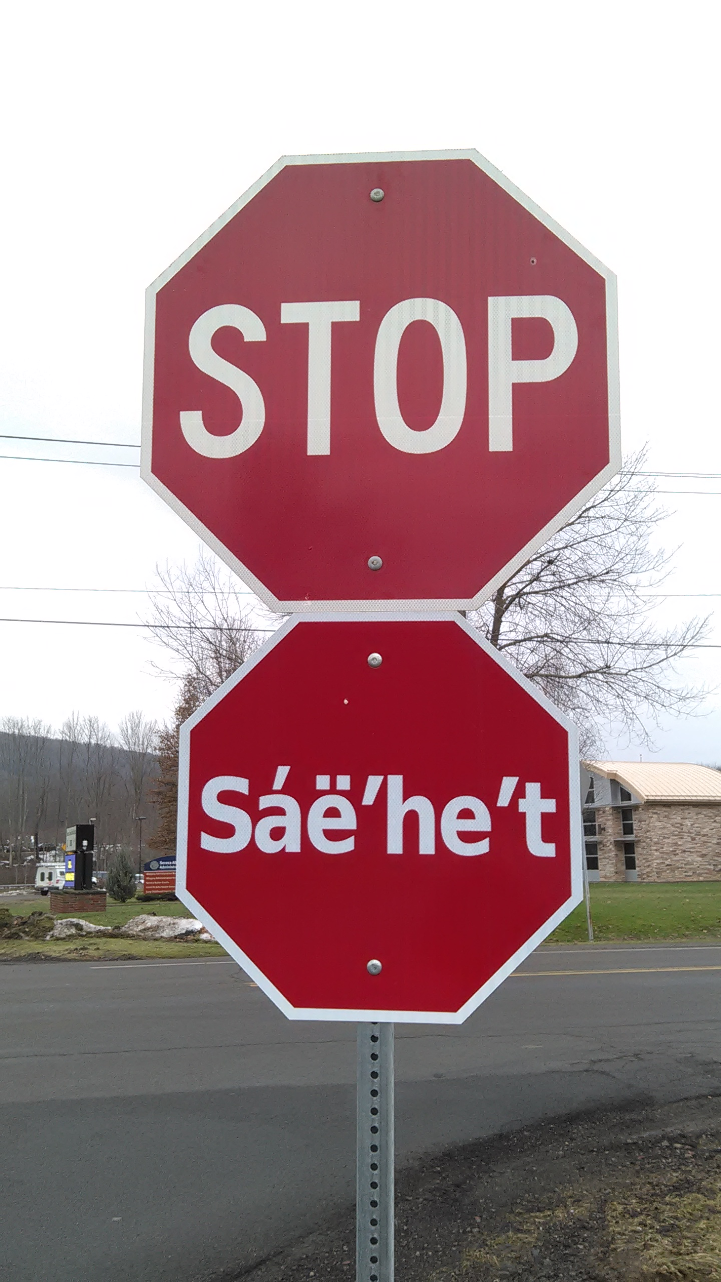 Bilingual stop signs on the Allegany Indian Reservation in Jimersontown, New York. Top is in English; bottom is in Seneca.